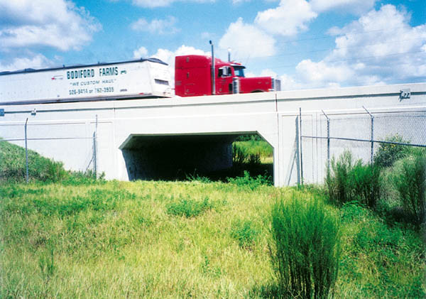 Bear underpass. Courtesy U.S. Dept. of Transportation. "Florida Department of Transportation (FDOT) and the Florida Fish and Wildlife Conservation Commission (FWC) designed the state's first underpass for black bears on a stretch of State Route 46 in Lake County." public domain quote from USDOT.